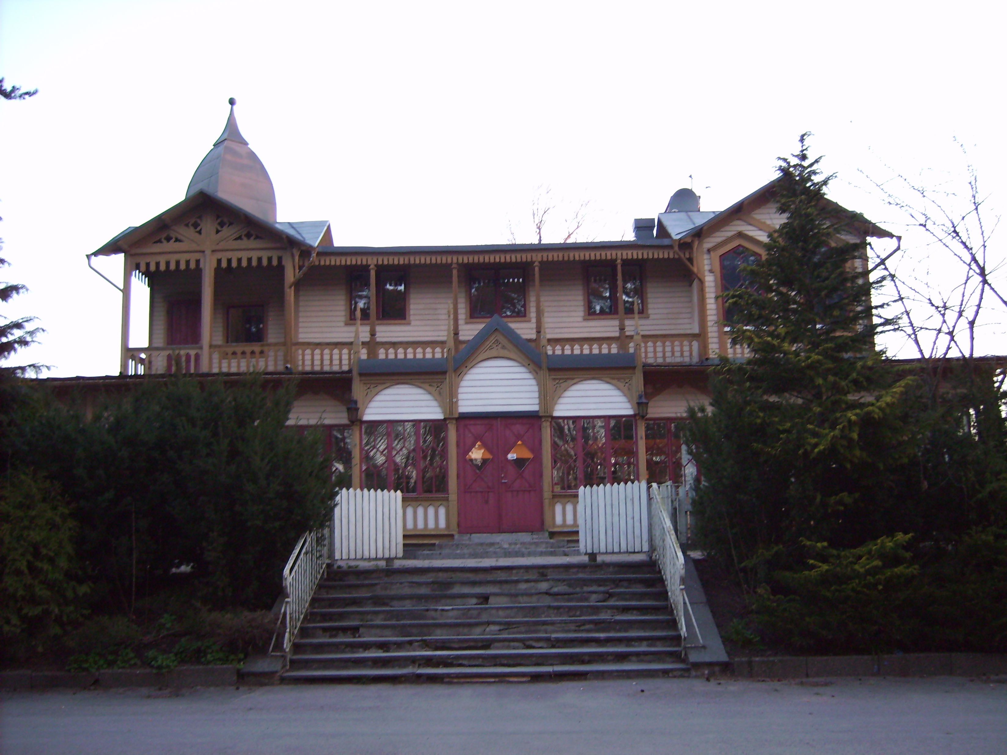 Photo by Harri Blomberg.